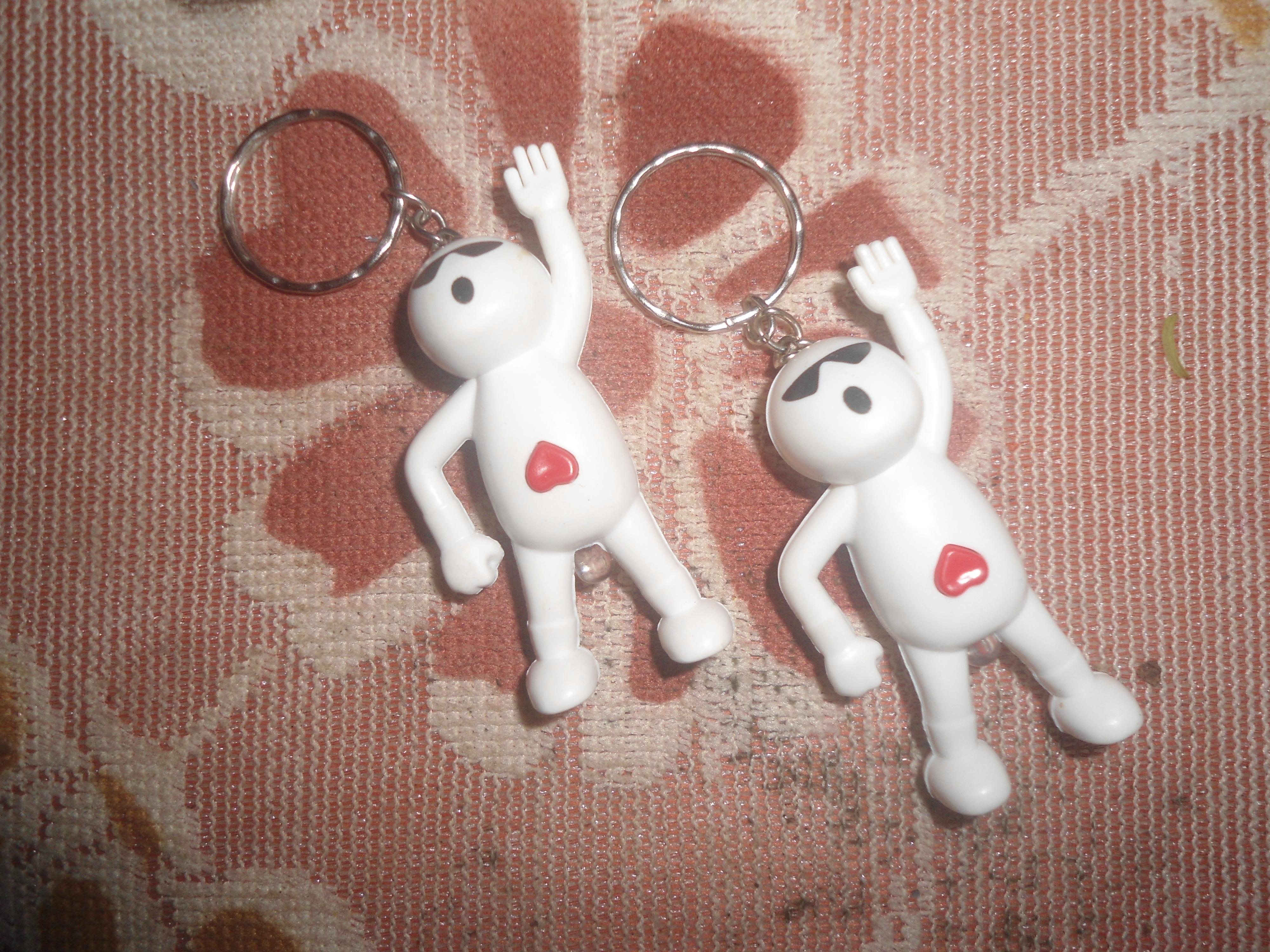 Zoozoo keychains at a stall in Shilparamam Jaatara, Madhurawada, Visakhapatnam